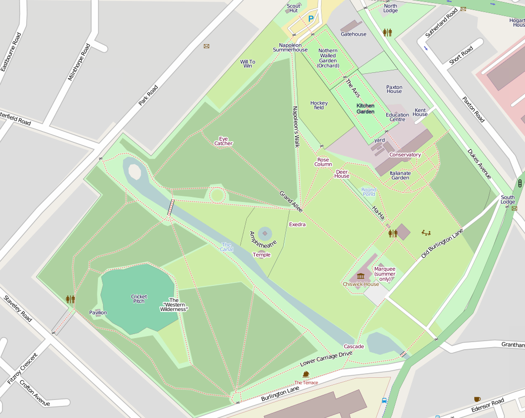 Map of Chiswick House and landscape park.